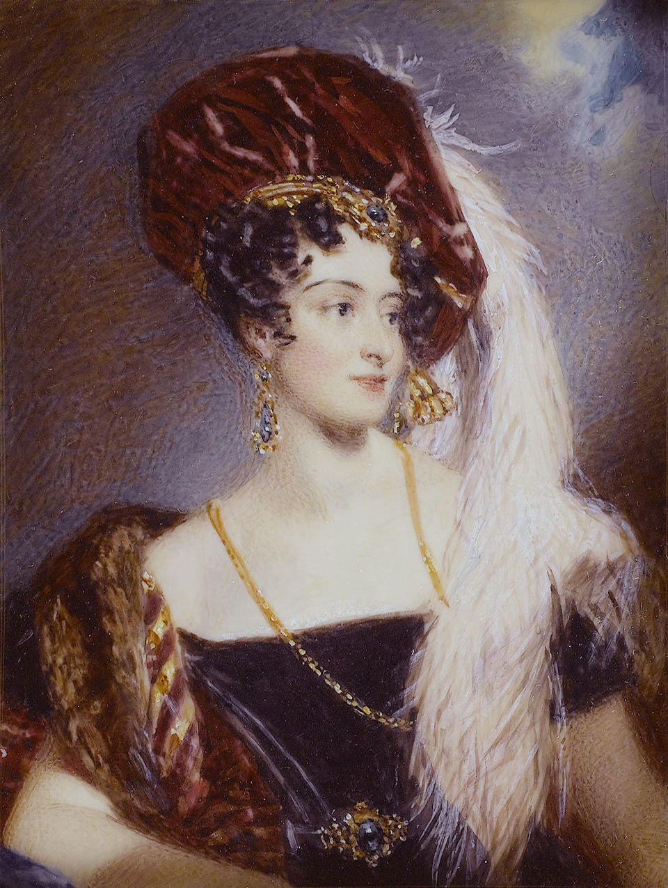 Sarah Sophia Child Villiers, Countess of Jersey (née Fane) (1785-1867) 10,5 x 7,8 cm